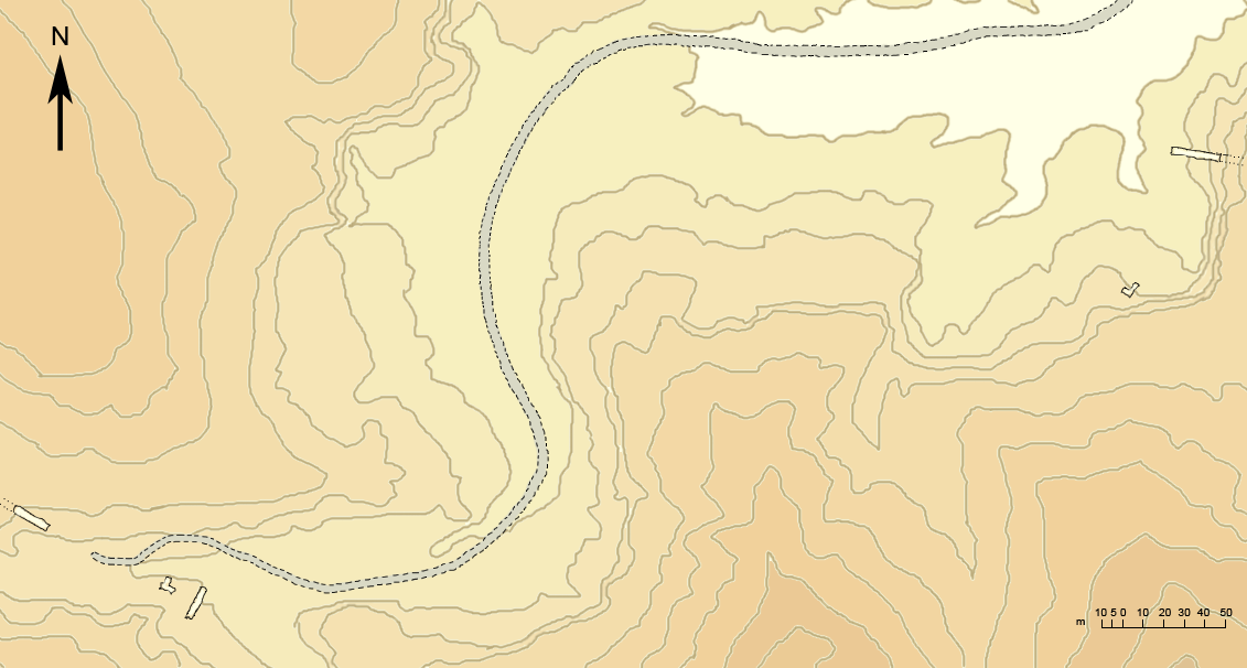 Sketch Map of West Valley of the Kings.